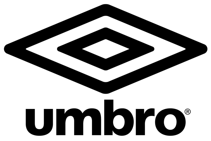 Logo for Umbro, as seen on Iconix Brand and Nike Inc. websites.